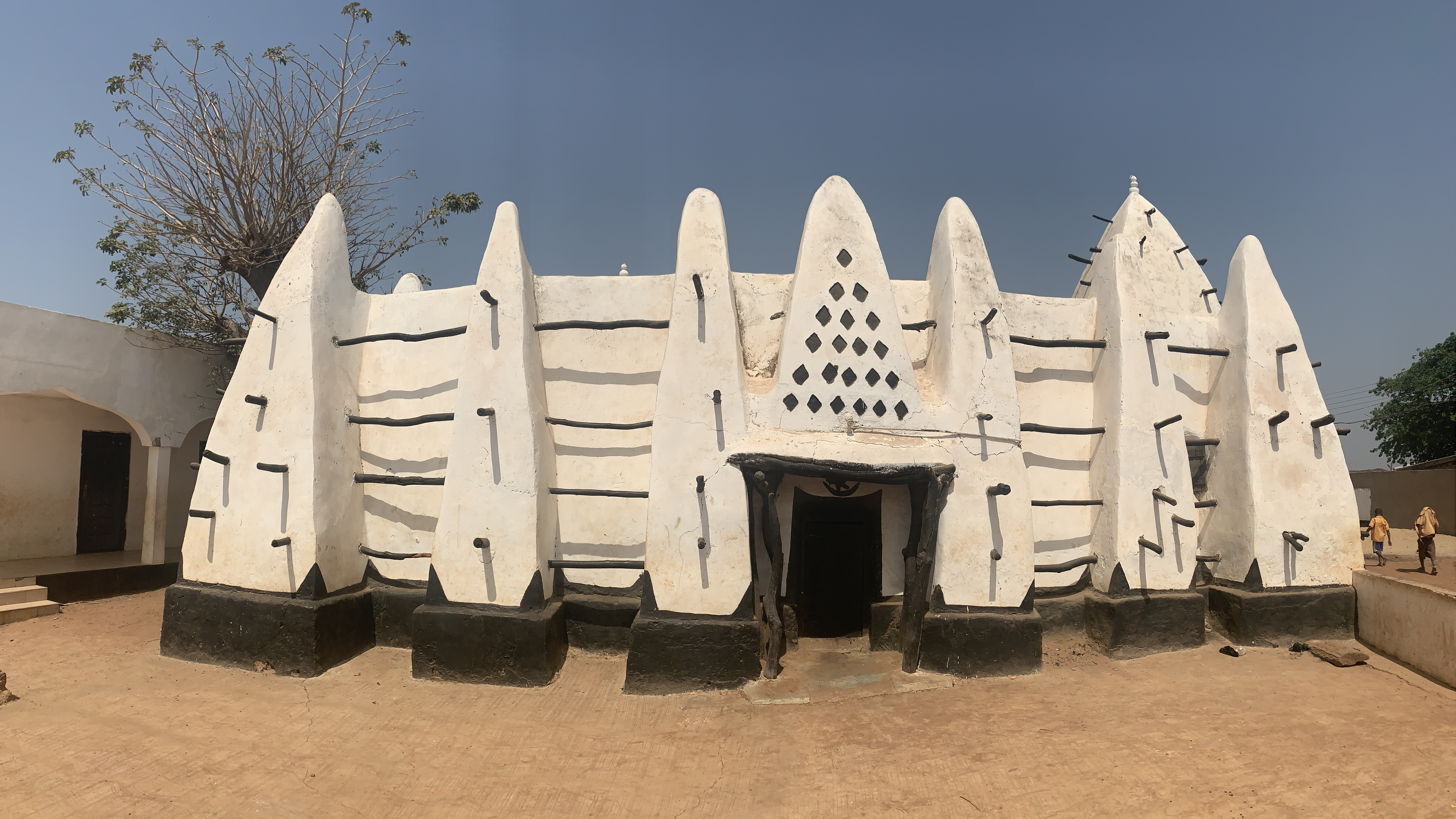 Built with mud and and sticks in Sudanese style, it is the oldest mosque in Ghana and West Africa. It is referred to as the "Mecca of West Africa". Its size is about 8 m by 8 m. It is one of the 100 Most Endangered Site in the World Monuments Fund list.